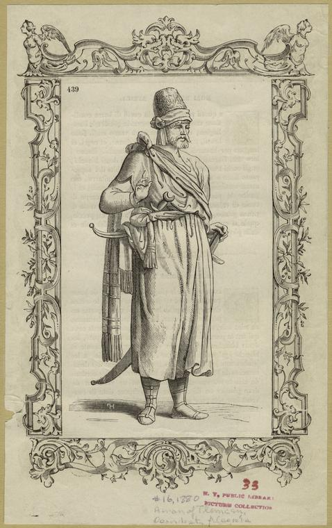 Mid-Manhattan Picture Collection / Costume -- regional -- Algerian - A man of Tlemcen